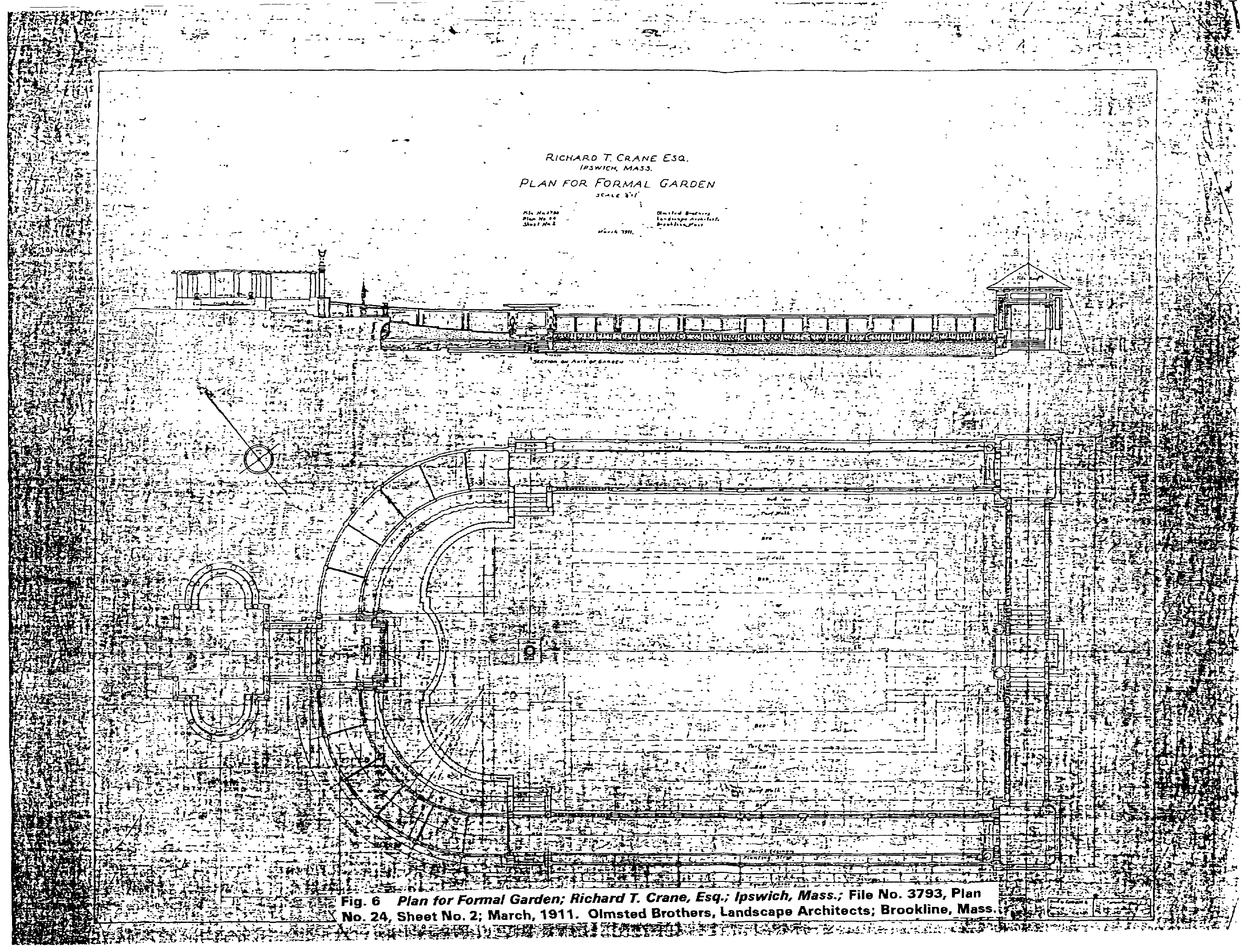 Plan for Formal Garden at Castle Hill, Ipswich, Massachusetts. Created by Olmsted Brothers, March 1911.